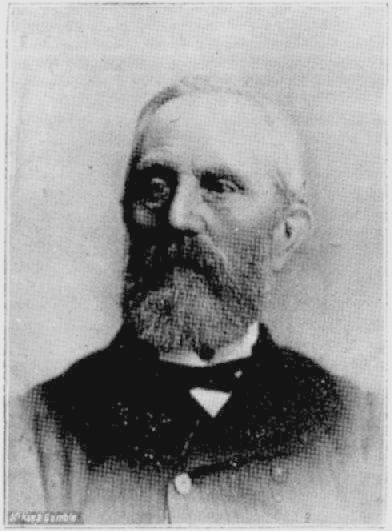 Sir John Hall was born in Kingston upon Hull, England, and later became the Prime Minister of New Zealand.